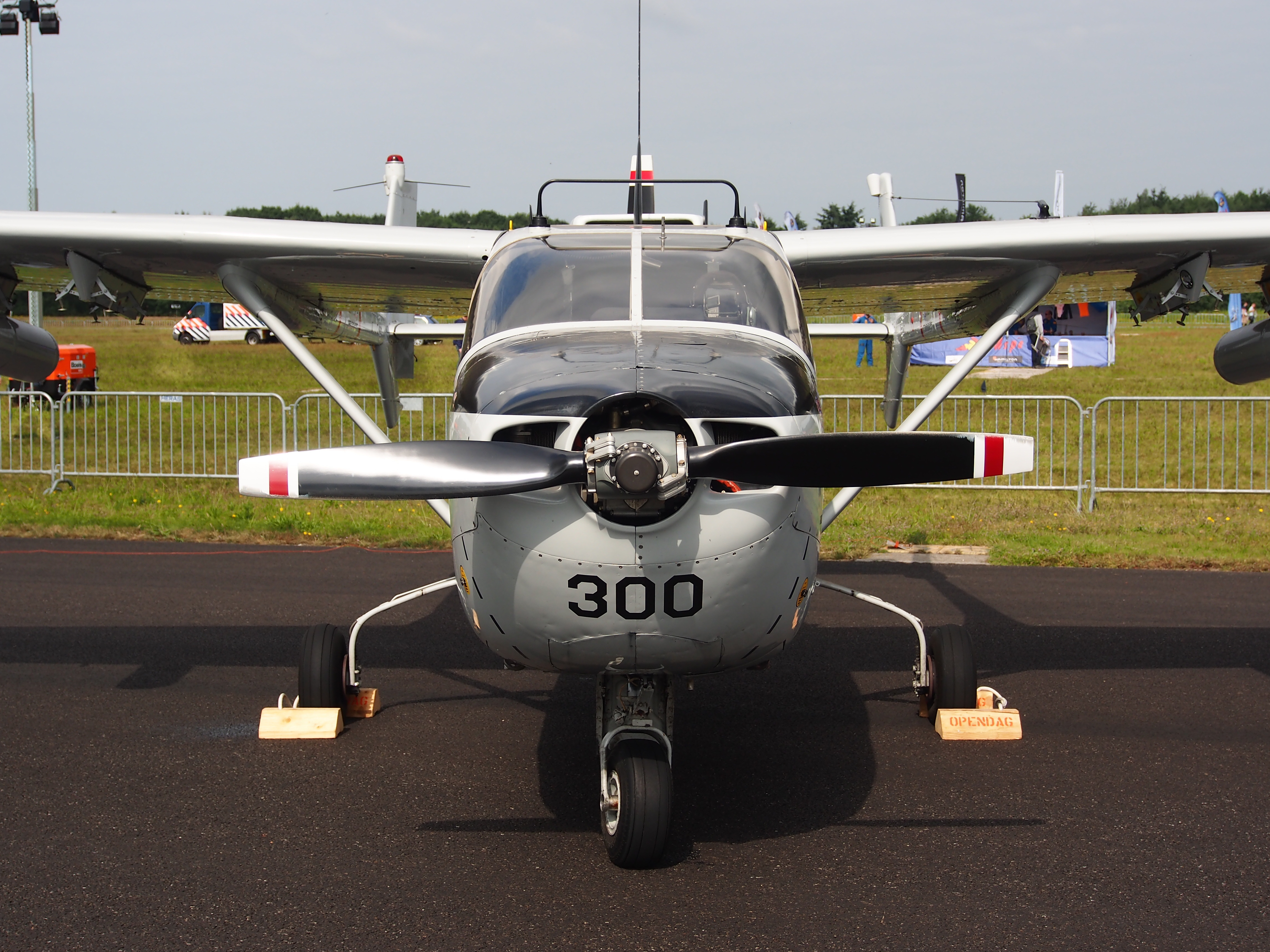 Photographed at Gilze-Rijen Air Base ( IATA=GLZ, ICAO=EHGR), The Netherlands.